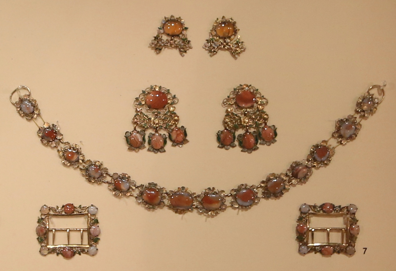 Photo of scottish 16th century pebble set jewellery . Made from Gold, agates and enamels